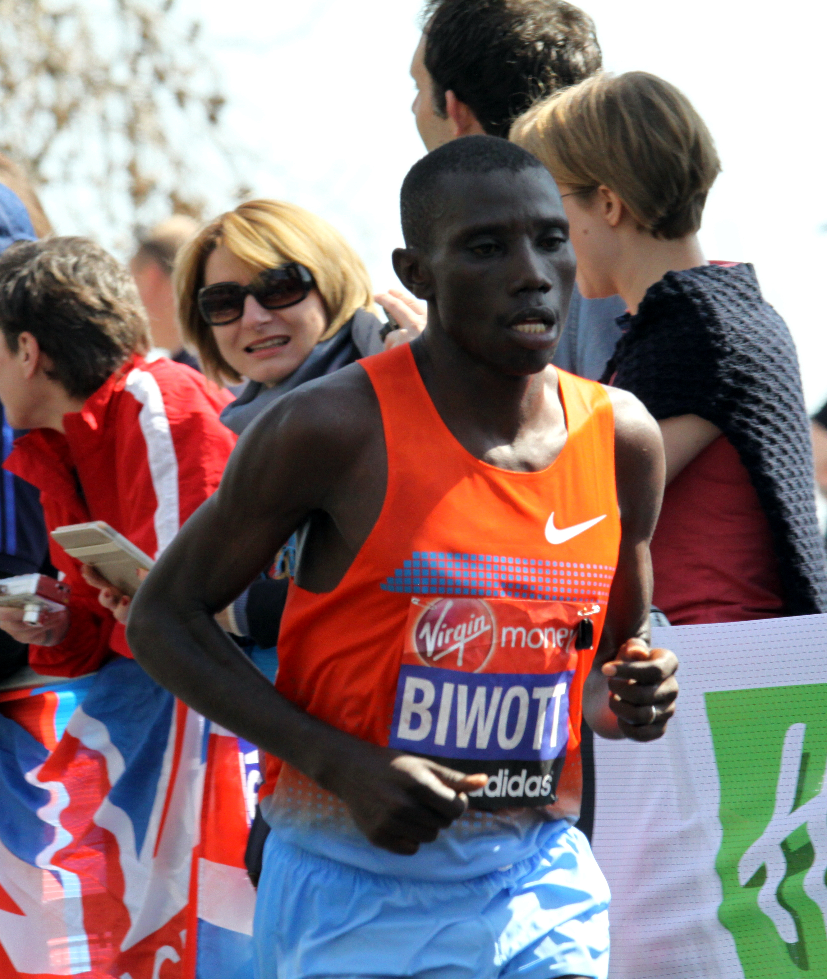 Stanley Biwott during 2013 London Marathon, photographed at Victoria Embankment, London, Great Britain. The making of this file was supported by Wikimedia UK.